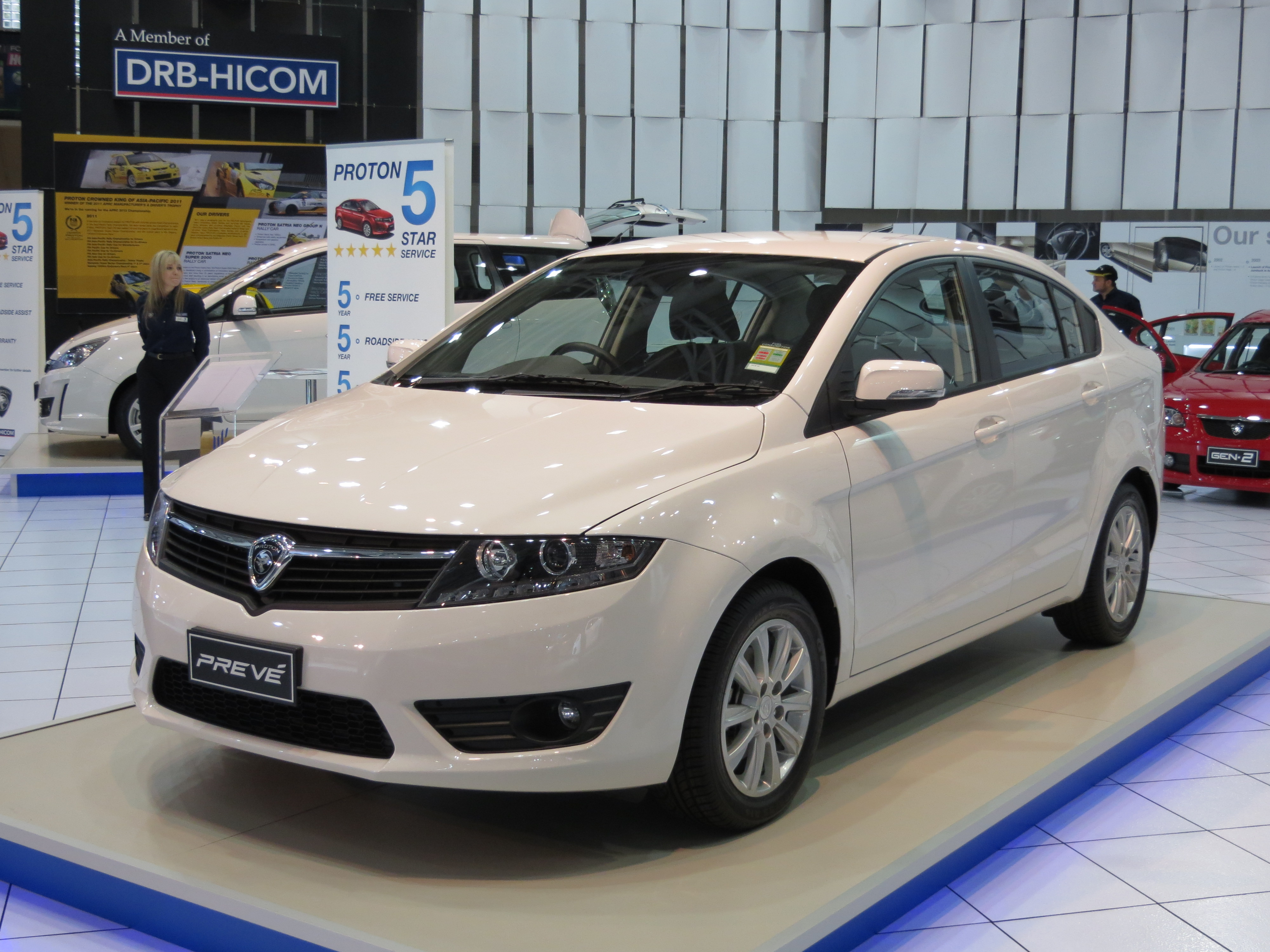 2012 Proton Prevé (CR) GX sedan. Photographed at the 2012 Australian International Motor Show, Sydney, New South Wales, Australia.